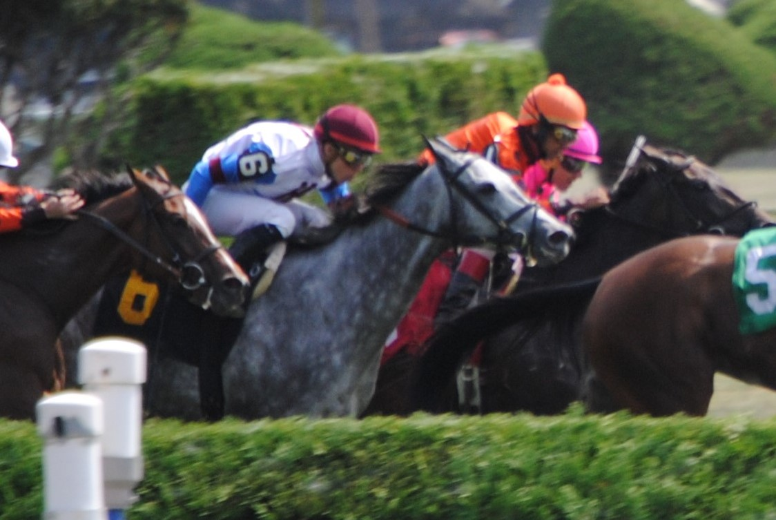 Irad Ortiz Jr in traffic at Saratoga 2015